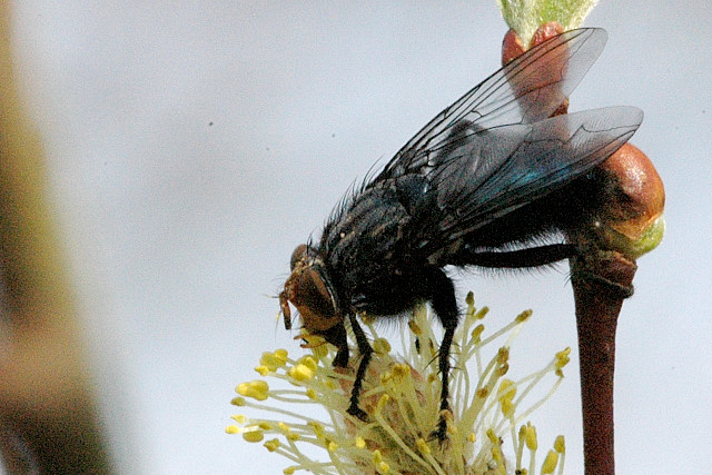 Picture taken in Commanster, Belgian High Ardennes . Species: Onesia floralis